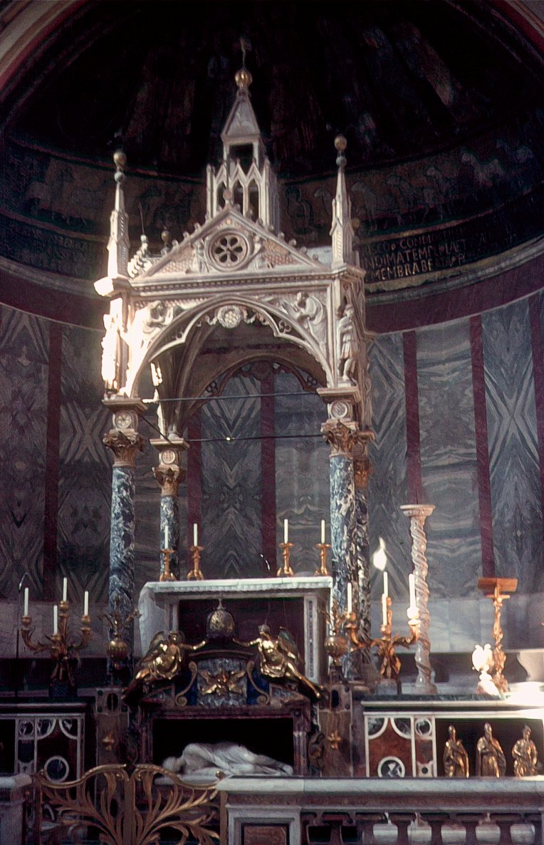 scanning of a (now deteriorated) slide taken by me in the late 1960s (I would have obediently followed the strong recommendation about Wikimedia Commons, but I have encountered a difficulty in logging in there.) Lima 12:57, 19 January 2007 (UTC)